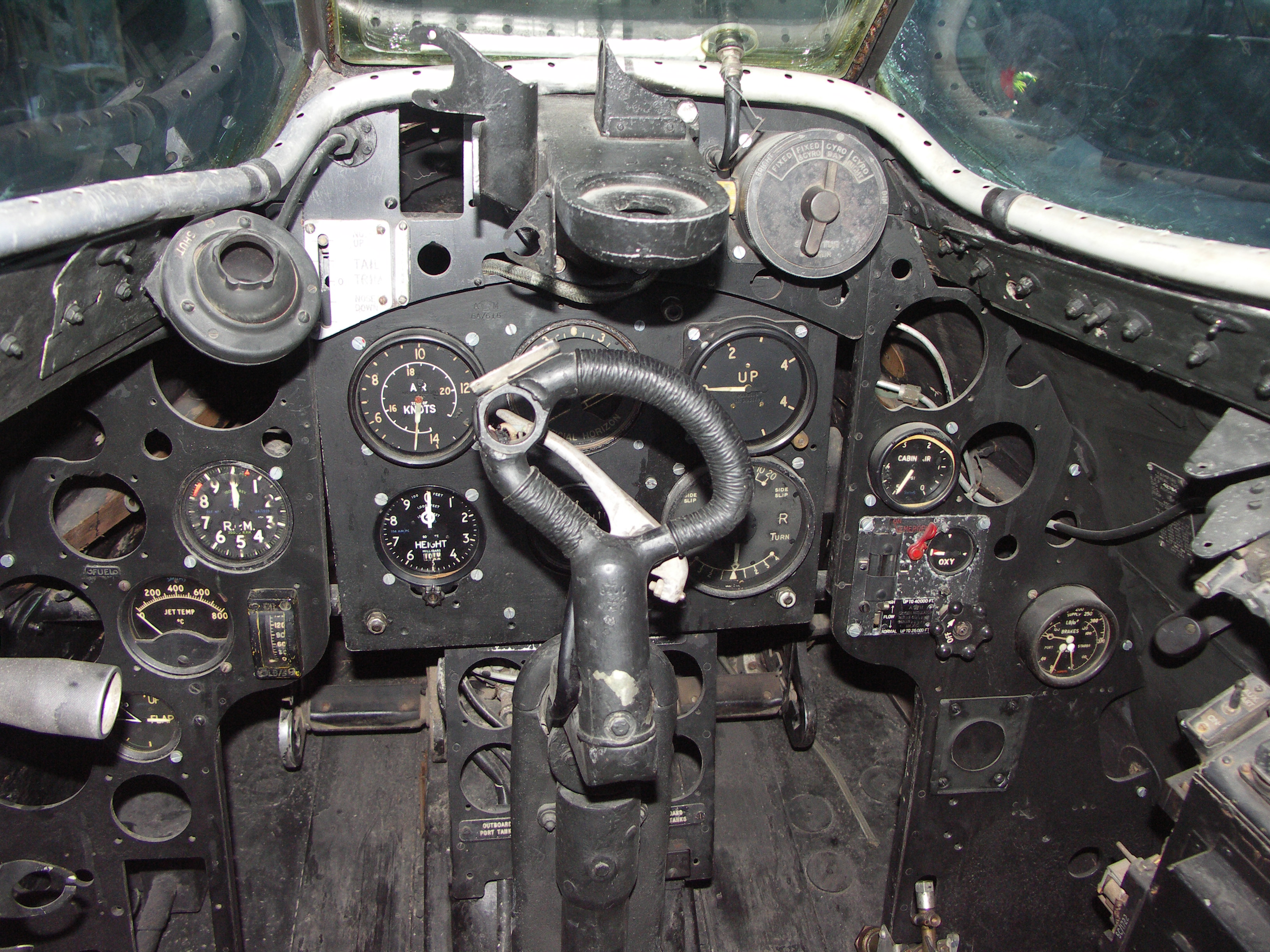 Interior of the de Havilland DH-100 Vampire FB mk2. Photo taken at the SAAF meseum, Port Elizabeth, South Africa